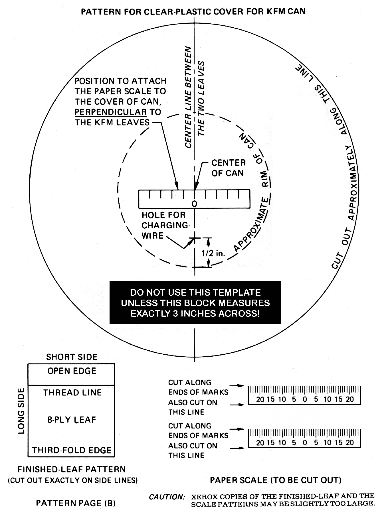 (Cresson Kearny, Oak Ridge National Laboratory, {"These documents may be freely distributed and used for non-commercial, scientific and educational purposes.", } )